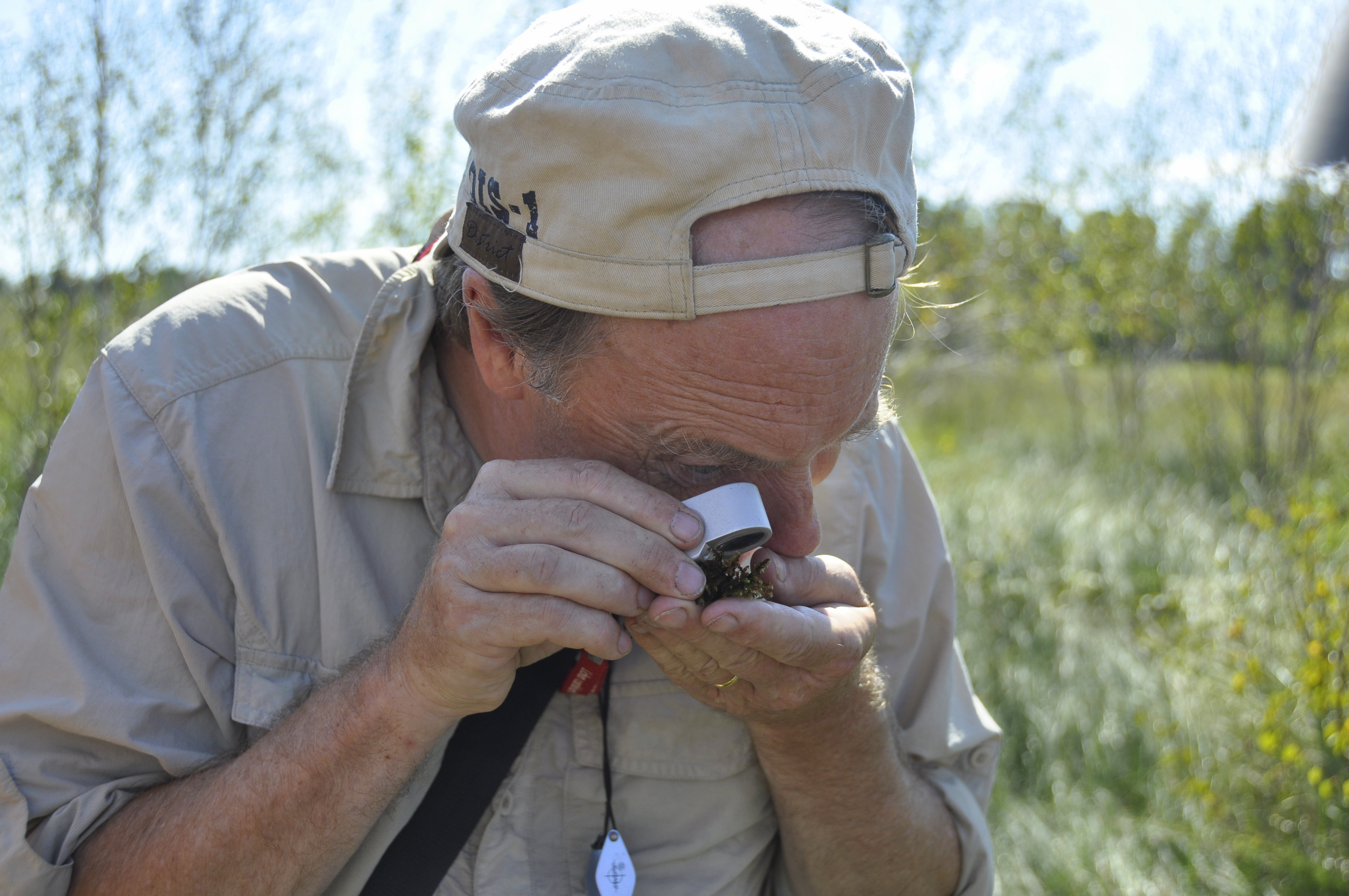 For bryophyte identification, eyes are not always enough. On the picture is bryophyte scientists Neil Lockheart.